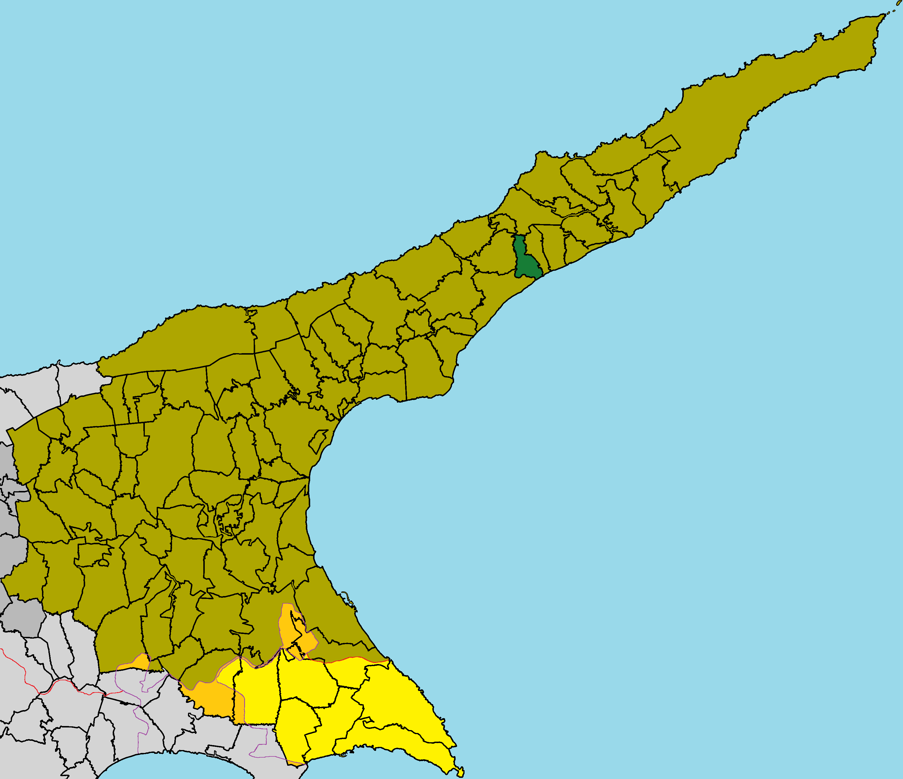 Vasili in Famagusta District (de jure).